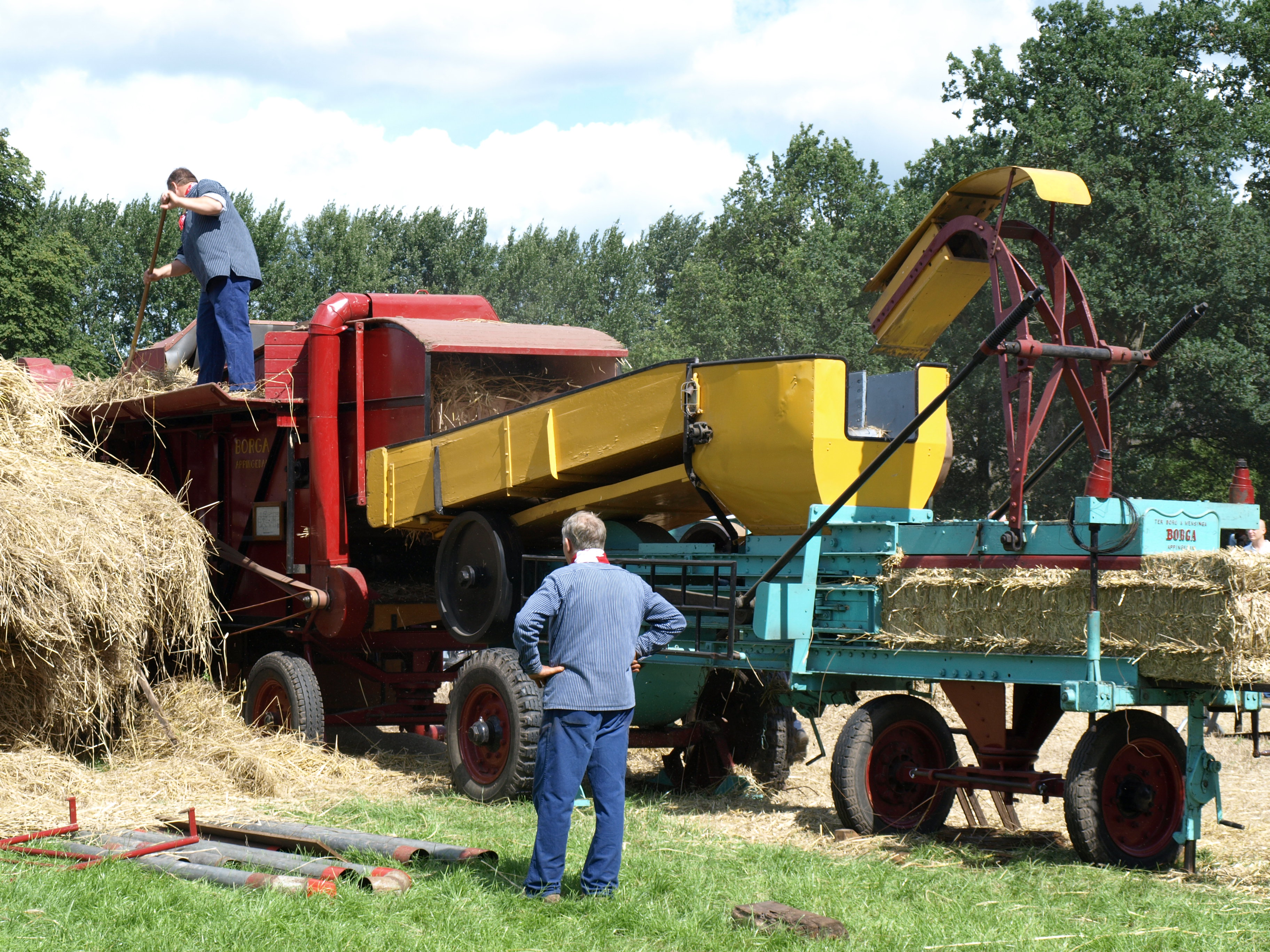 Old Borga threshing machine and baler. This picture was taken in Orvelte at an agricultural show.